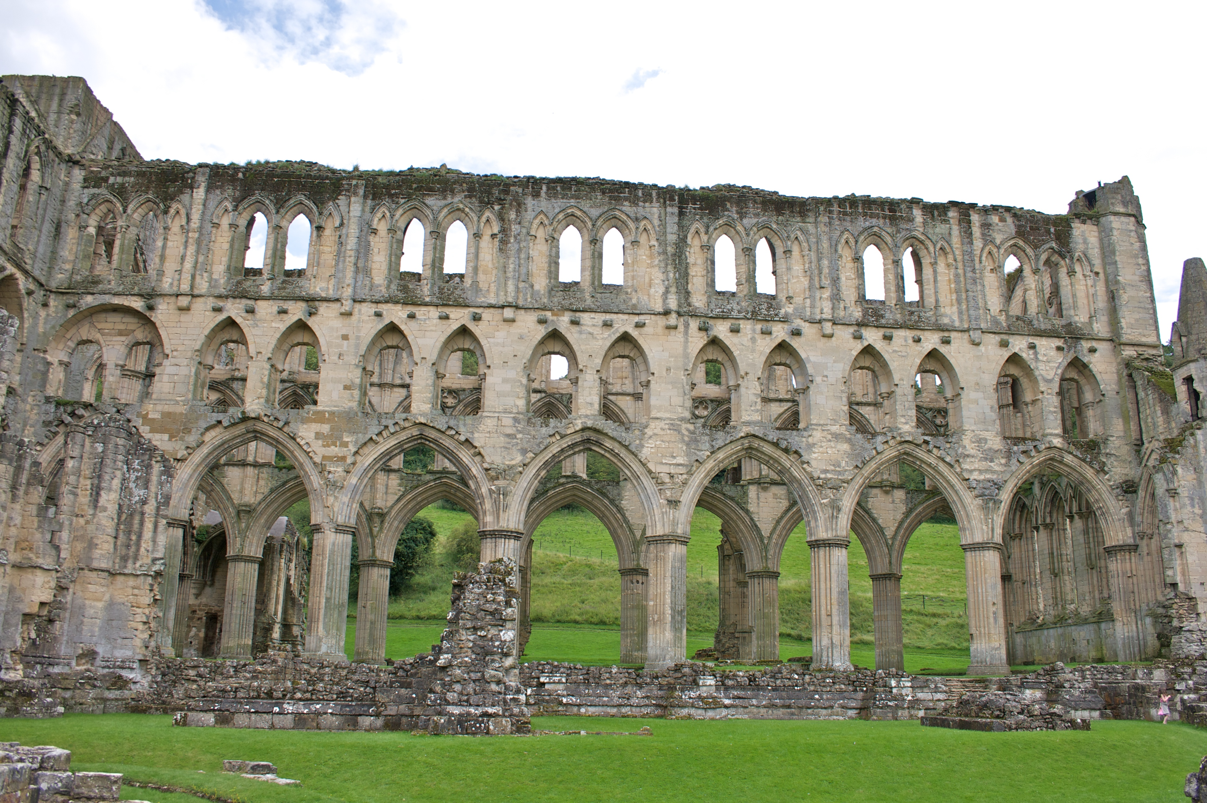 Ruins of Rievaulx Abbey, England.